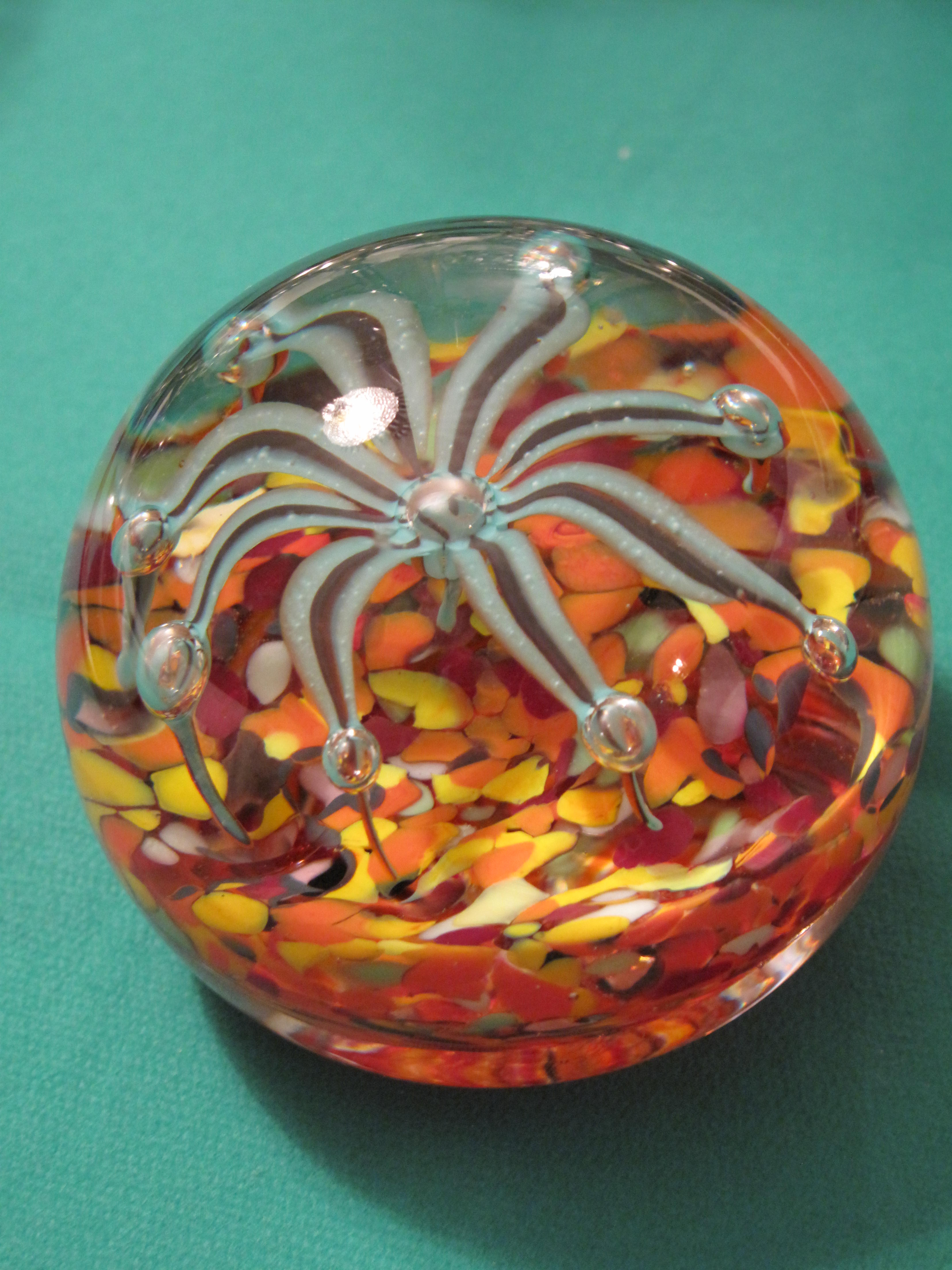 Decorative glass paperweight